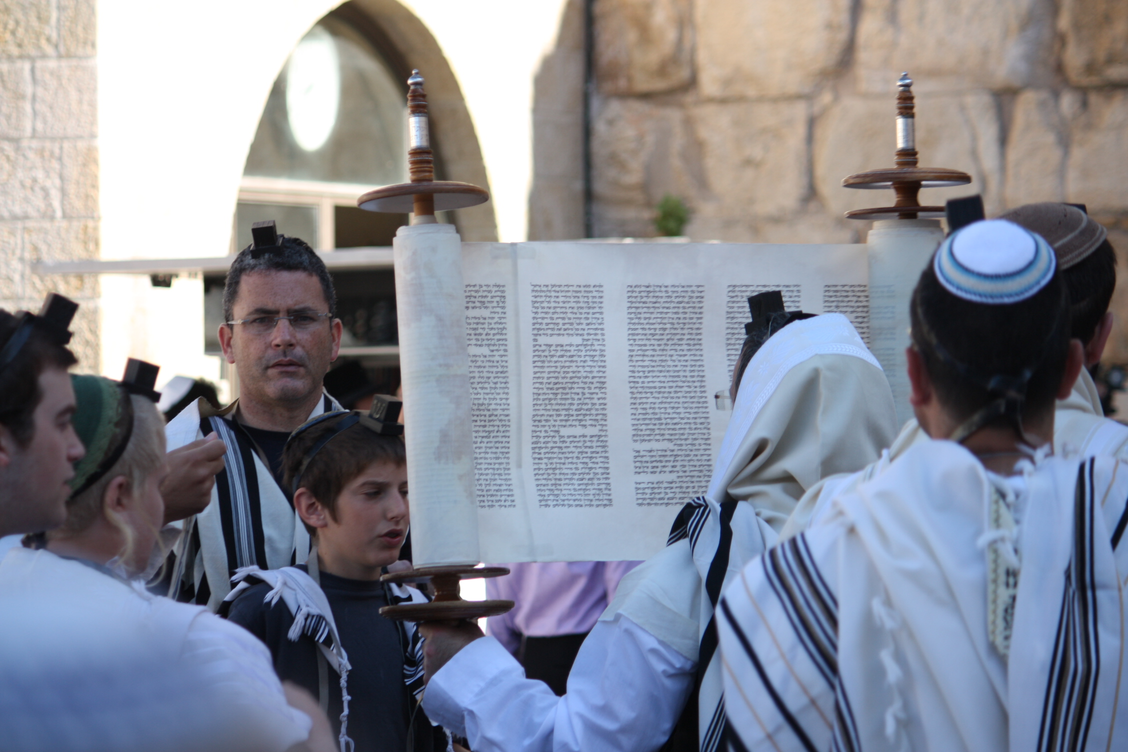 Lifting of a torah book